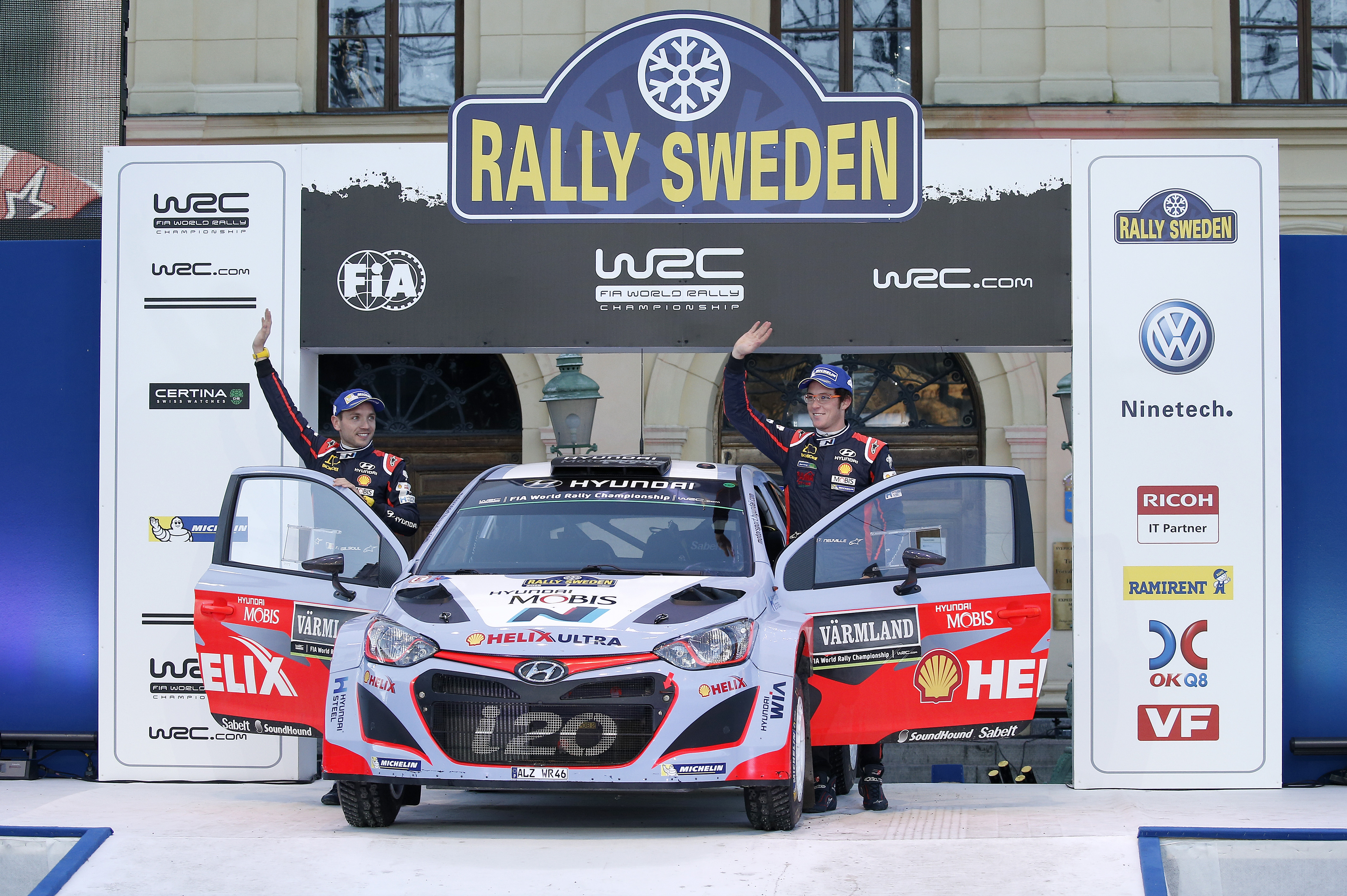 Thierry Neuville (right) and co-driver Nicolas Gilsoul at Stora torget (The Great square) in Karlstad after finishing second in the 2015 Rally Sweden.